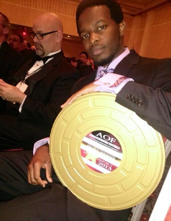 Antonio James International Film Festival Award Winner (2013) Trey the Movie